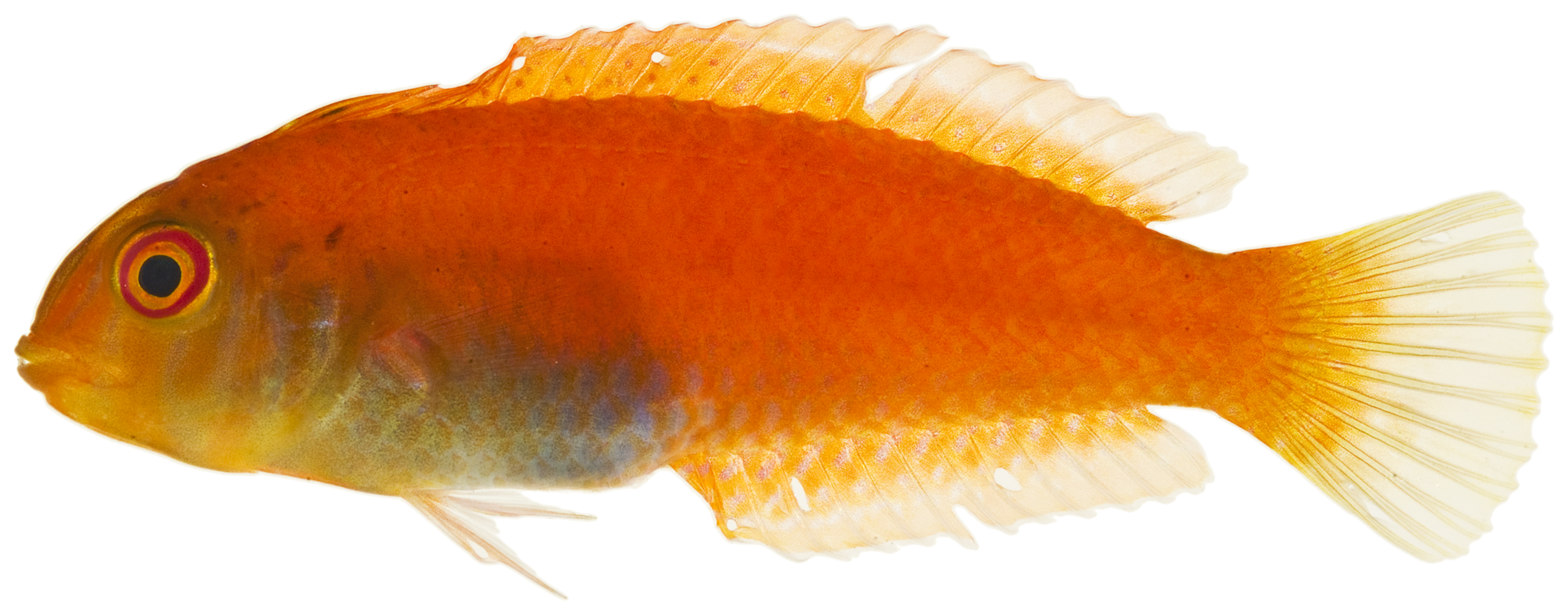 Xyrichtys splendens Castelnau, 1855—green razorfish, 52.4 mm SL, initial color phase of female. Photo by JT Williams.